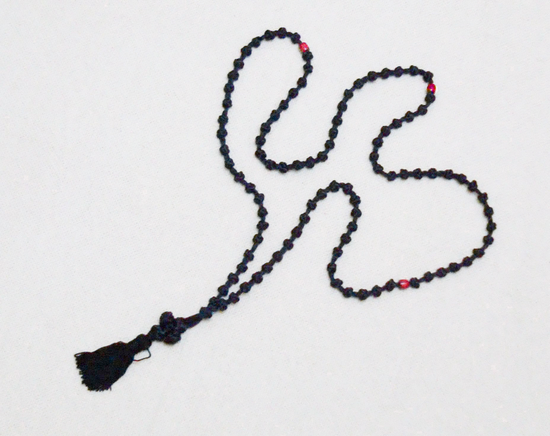 Prayer rope or Komboskini.